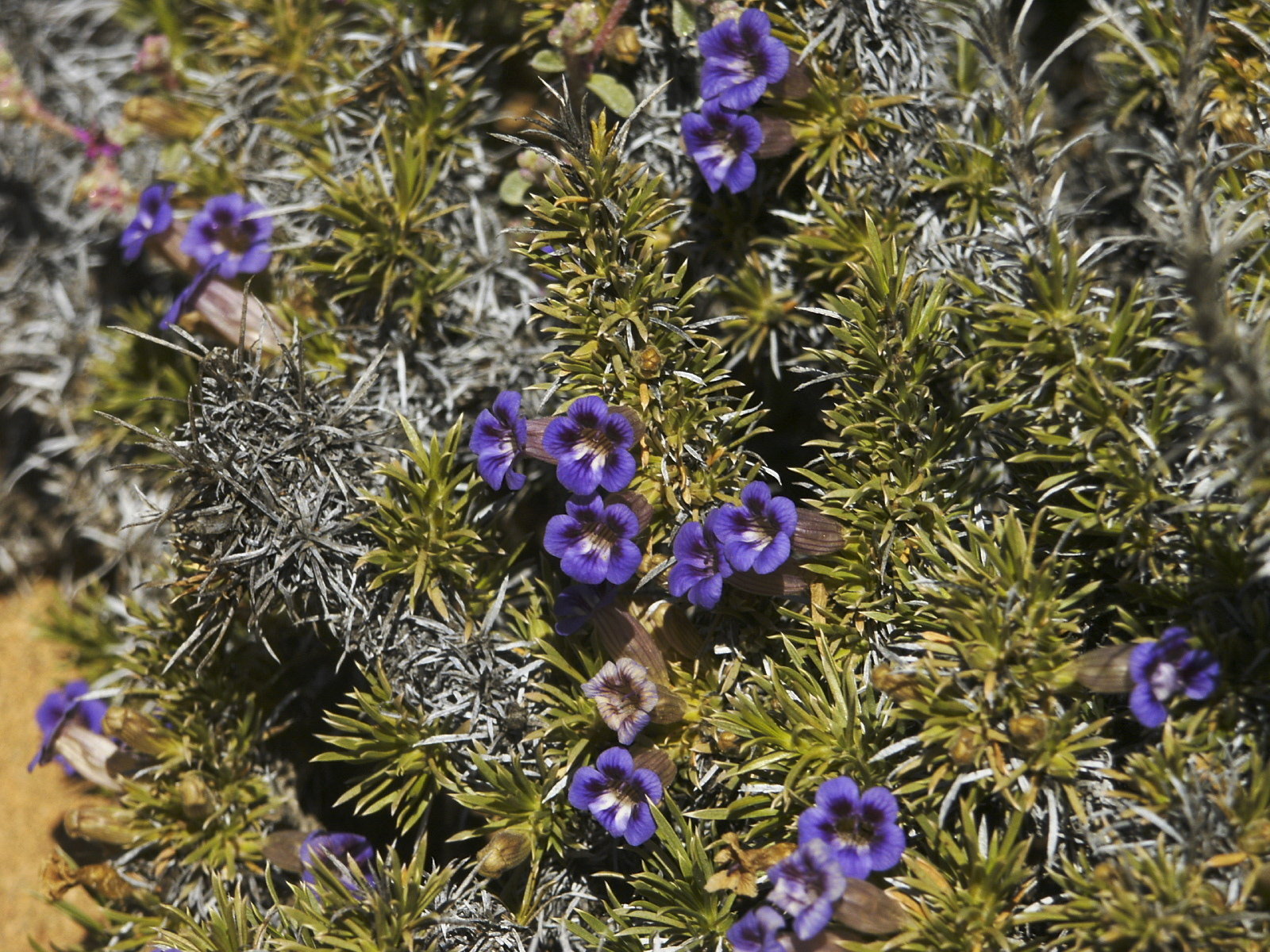 Wrongly identified, this plant is probably an Aptosimum species